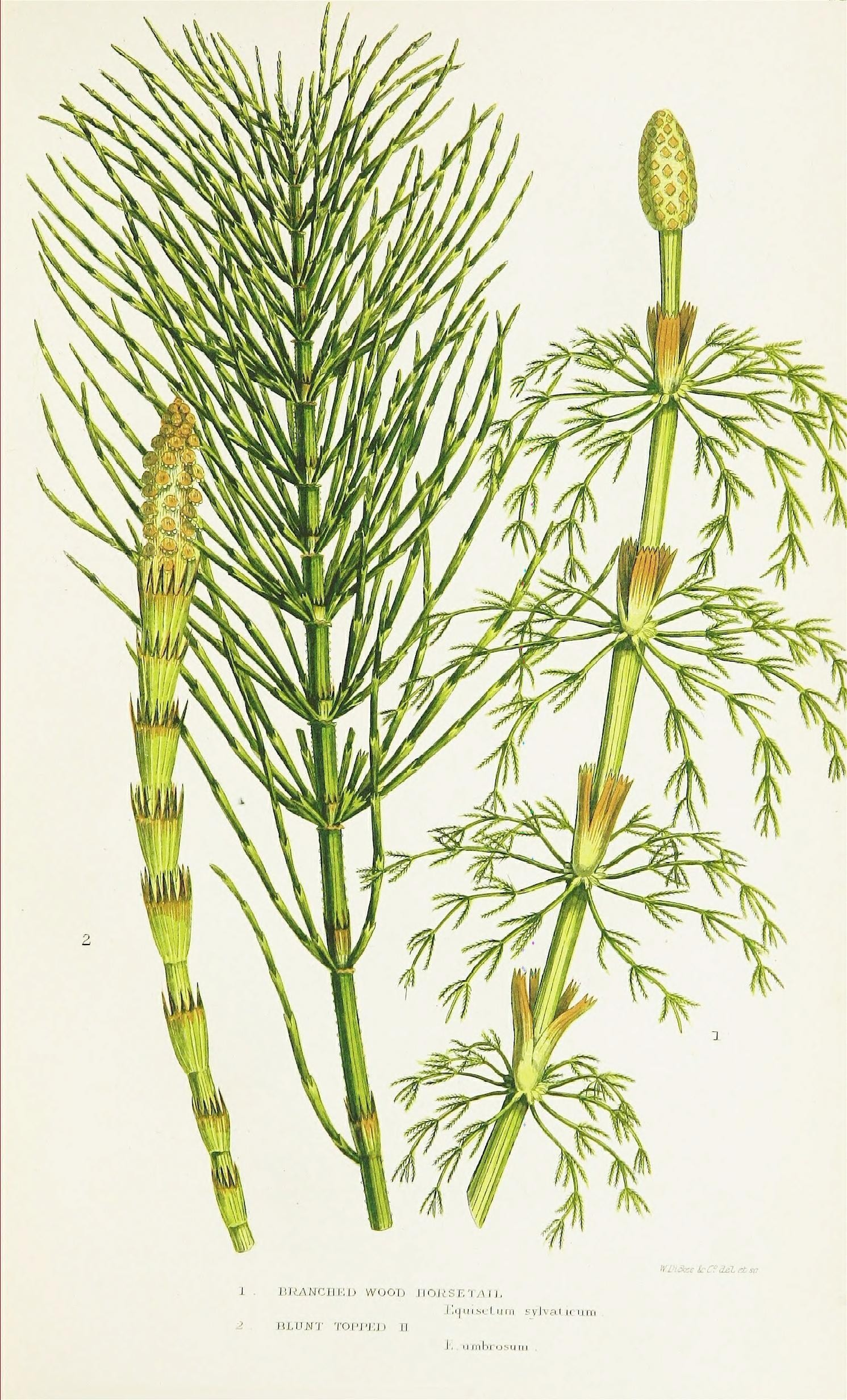 The ferns of Great Britain, and their allies the club-mosses, pepperworts, and horsetails /